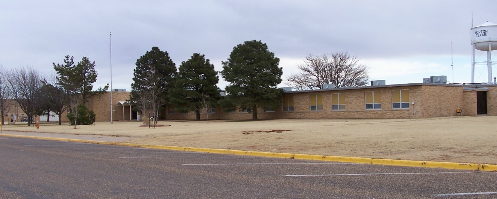 Picture of Morton High School